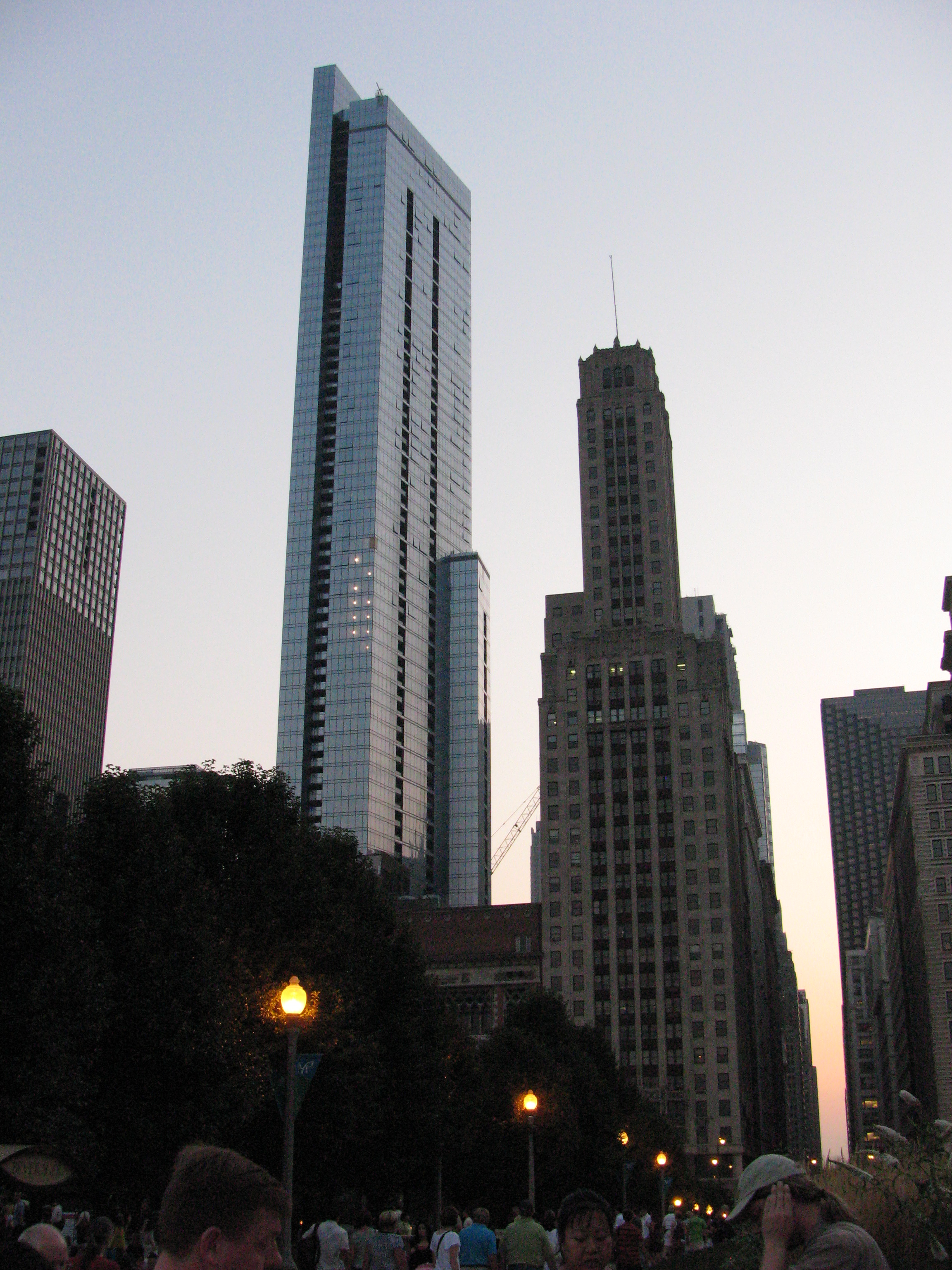 Legacy Tower